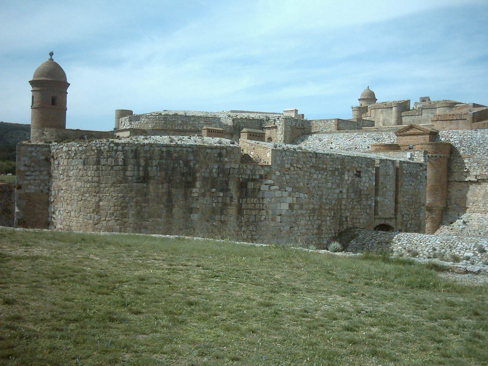 the Salses Fortress (Southern France).